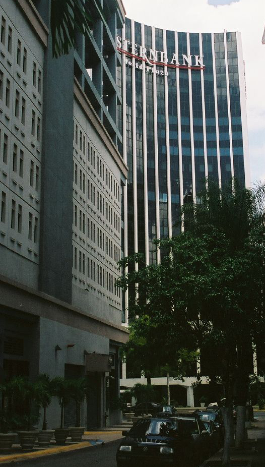 Derivated work from Image:Westernbank.jpg from the flickr user + + (